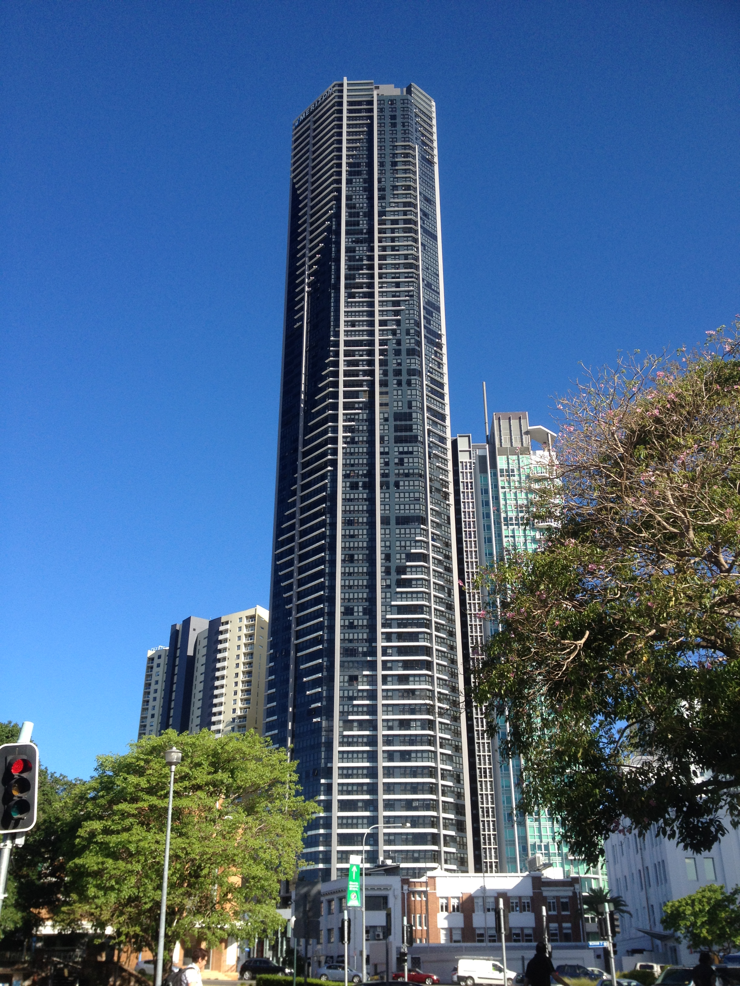 Soleil (Brisbane)